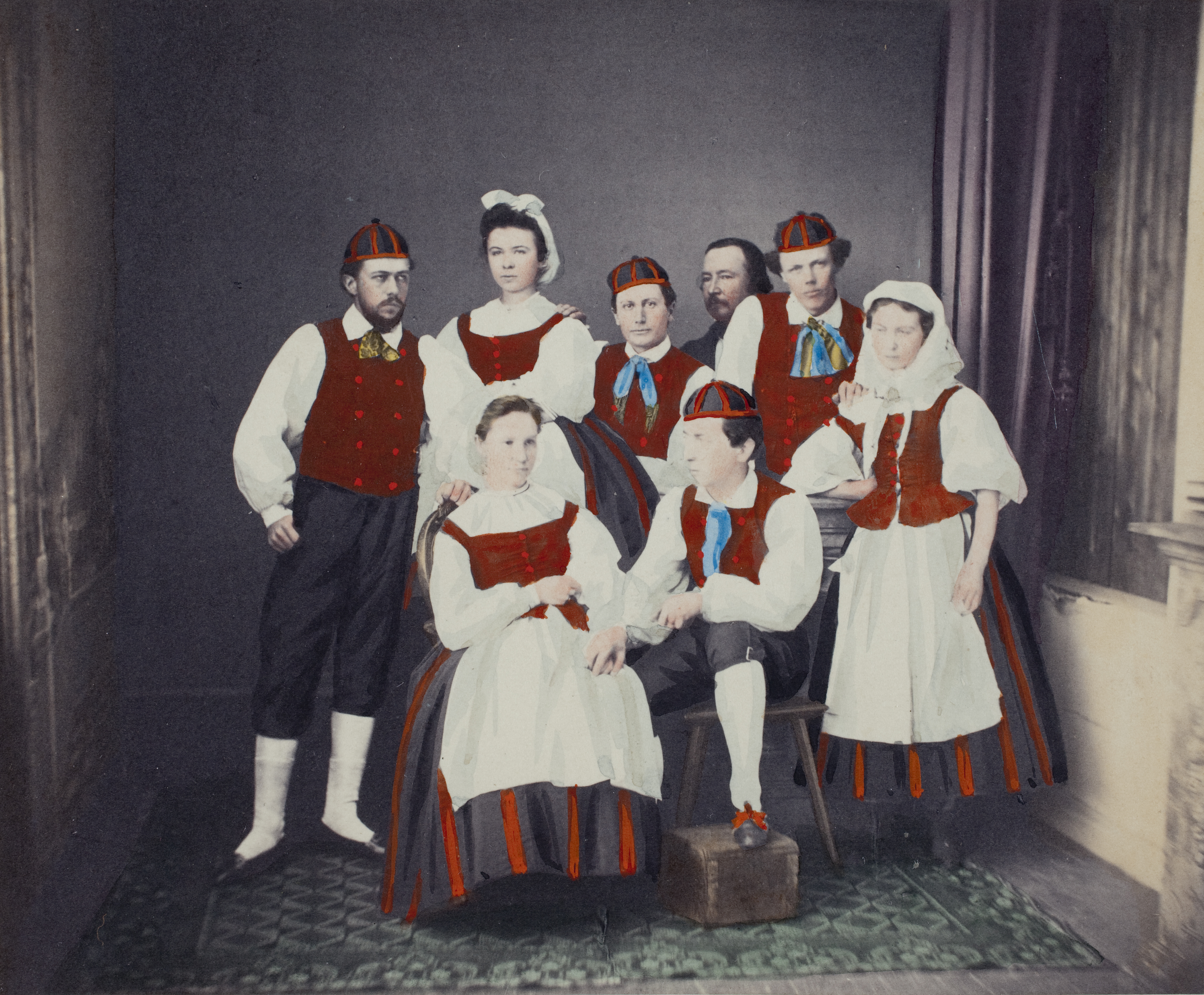 Fest på Konstnärsgillet På Konstnärsgillets fester iscensatte Topelius tablåer med finska »folkdräkter» och historiska kostymer, själv skymtar han i bakgrunden. slsa1160_331_1 Zacharias Topelius Skrifter Svenska litteratursällskapet i Finland